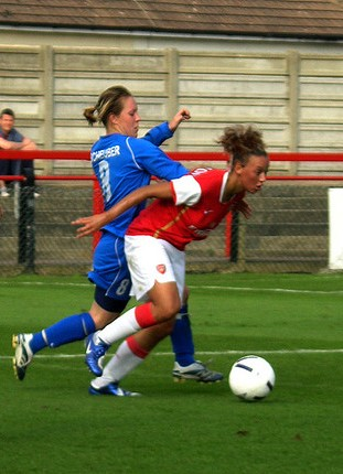 Bclfc vs arsenal in the FA league cup, season 2006/07. For more details go to